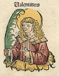 Illustration from the Nuremberg Chronicle